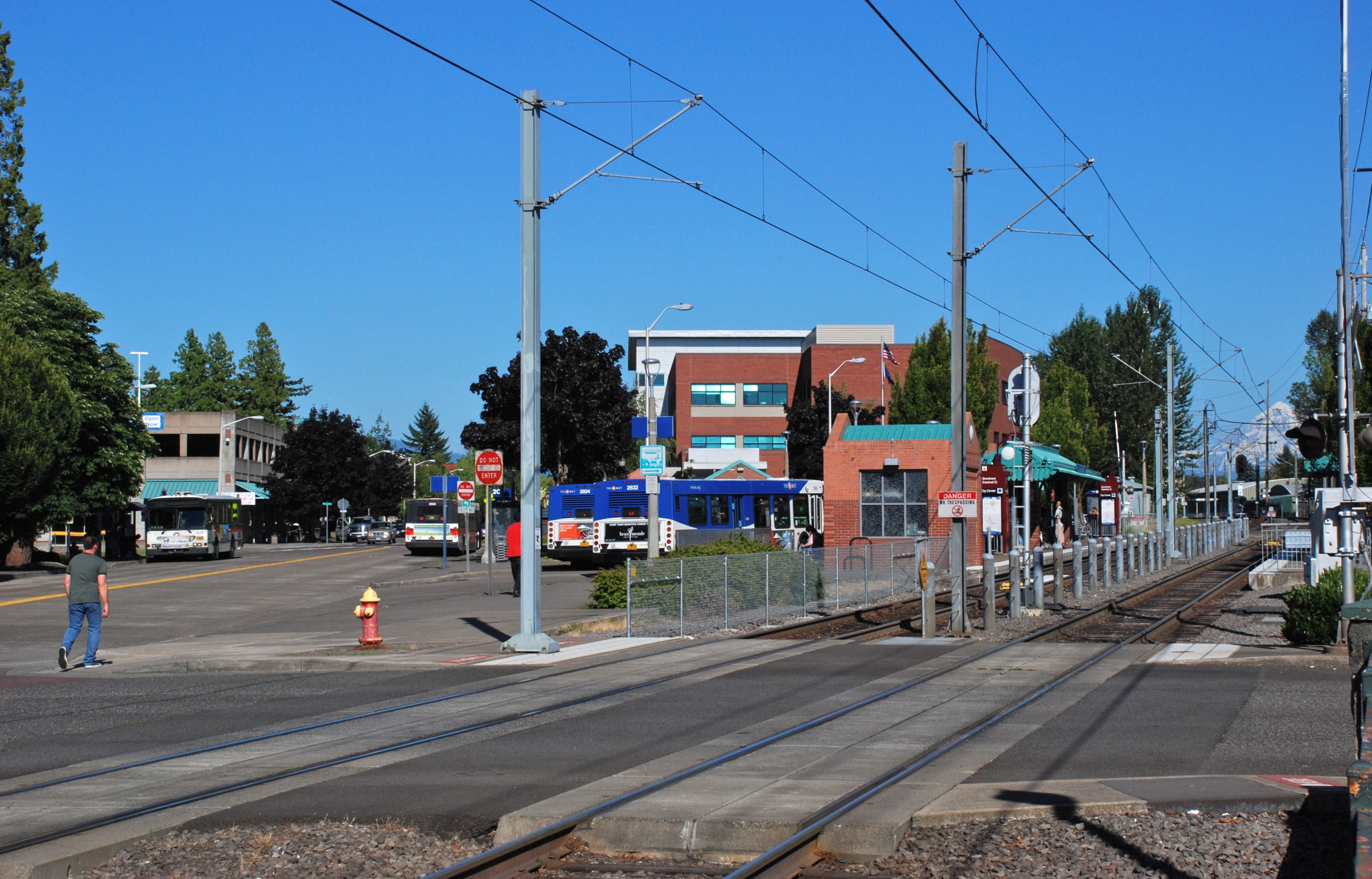 A full view of TriMet's Gresham Central Transit Center, viewed from the west, looking across Hood Avenue. At left, buses are laying over on both sides of 8th Street, and in the middle of the photo, two buses are on the transit center's bus-only roadway, which runs at an angle (roughly parallel to the MAX tracks). The MAX light rail station is at right, and Mt. Hood is just visible in the distance.